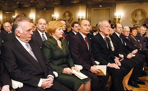 President Putin and German President Johannes Rau with their spouses at a performance by the St Petersburg Philharmonic Orchestra conducted by Mikhail Pletnev.